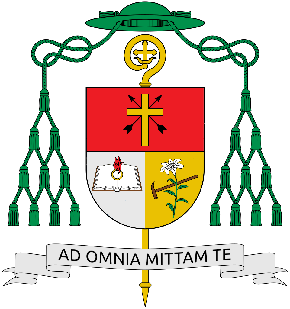 Coat of Arms of Gilbert Garcera, Archbishop of Lipa